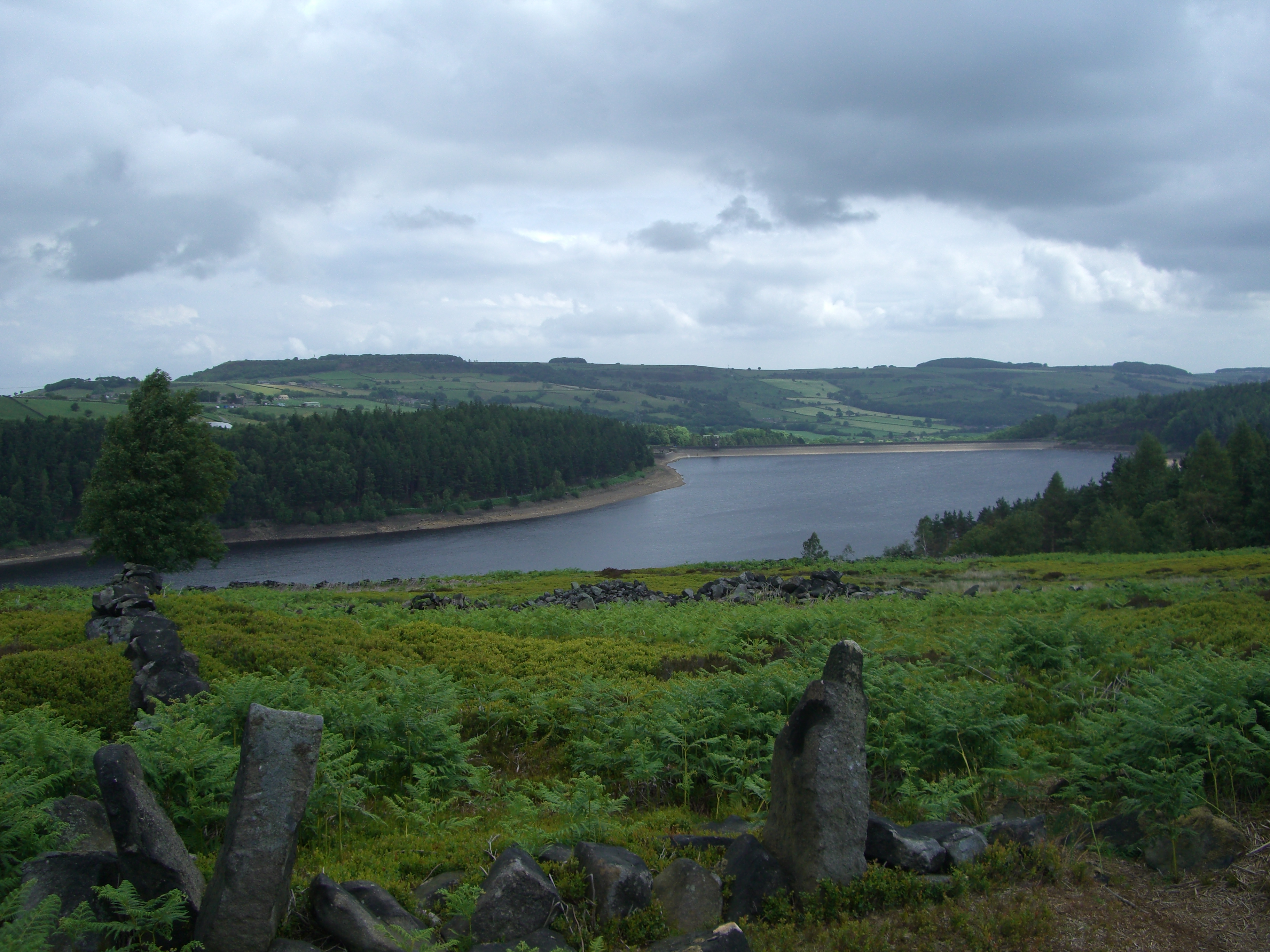 Langsett Reservoir near Sheffield, Yorkshire seen from Hingcliff Common.